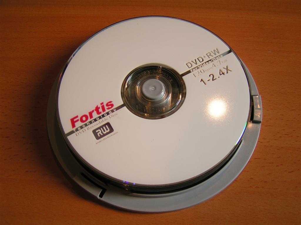 Spindle with re-writable DVDs of the DVD+RW standard.